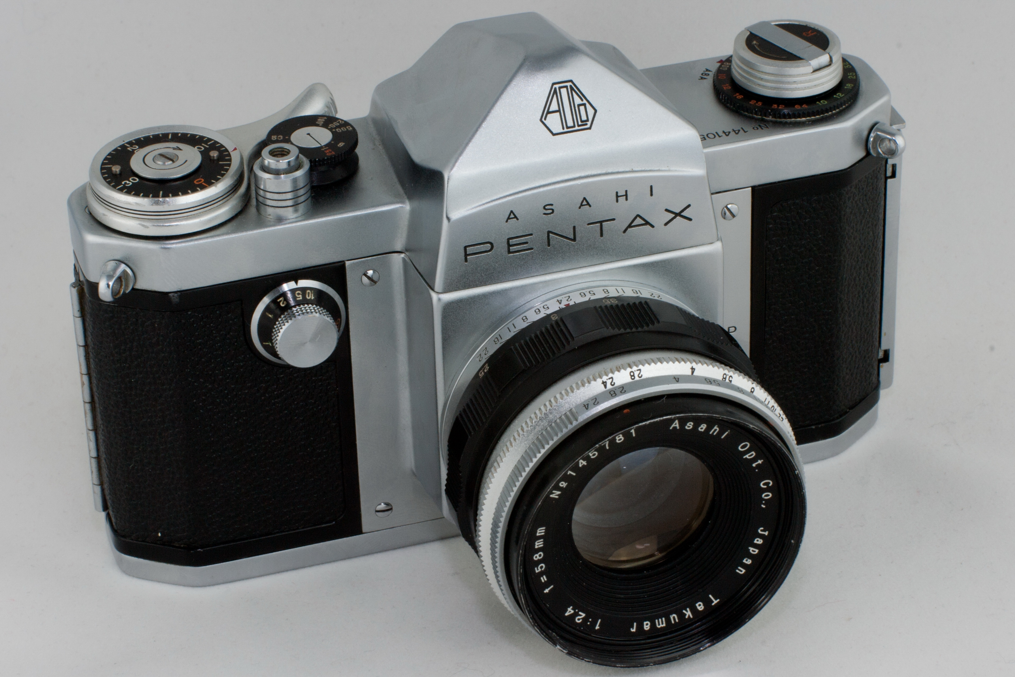 SLR-camera Asahi Pentax "AP" view of the top and right.